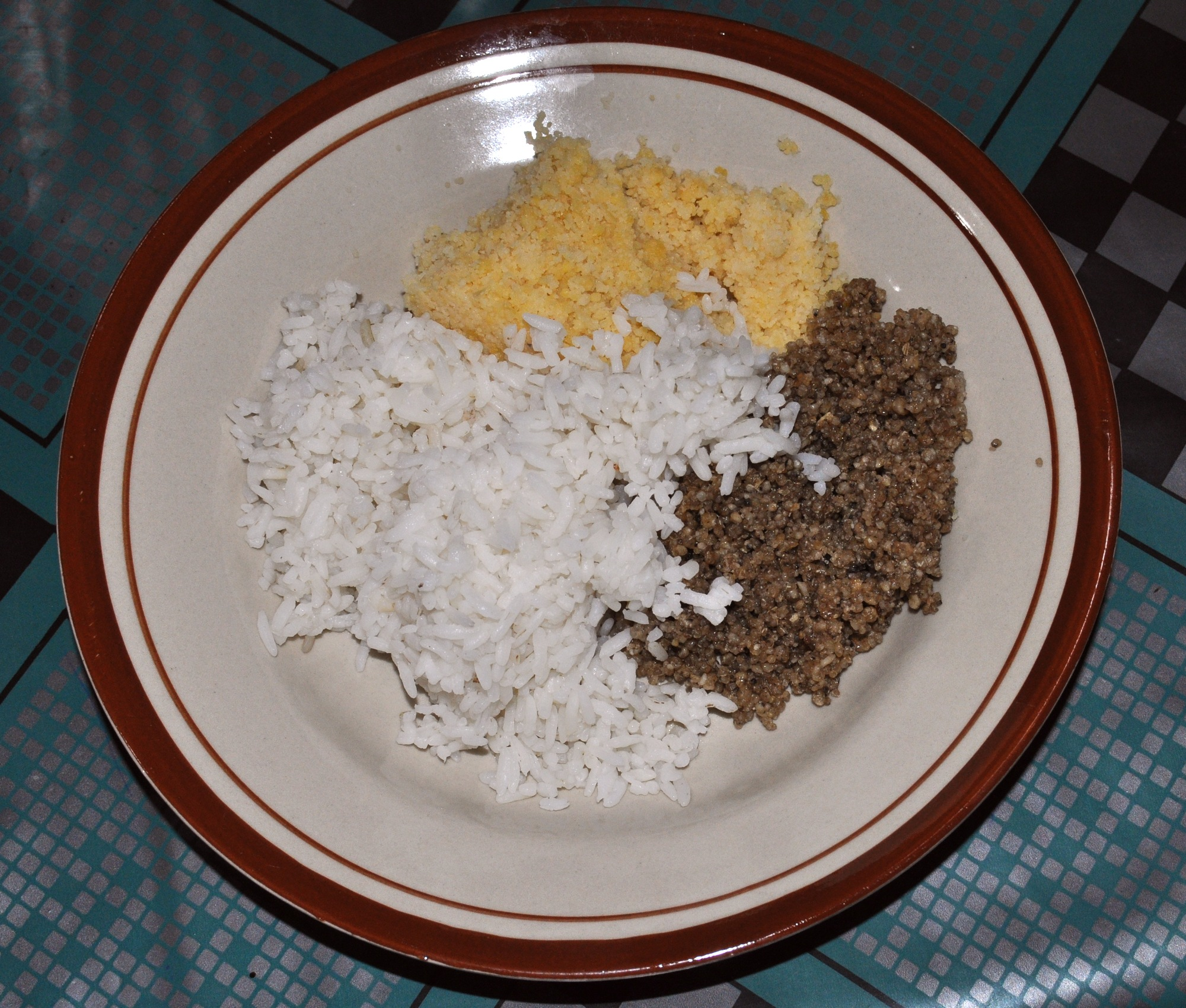 Mixed of three kind of nasi (=boiled 'rice'): white rice, maize, and cassava (Javanese: thiwul; brown color). Blitar, East Java , Indonesia.